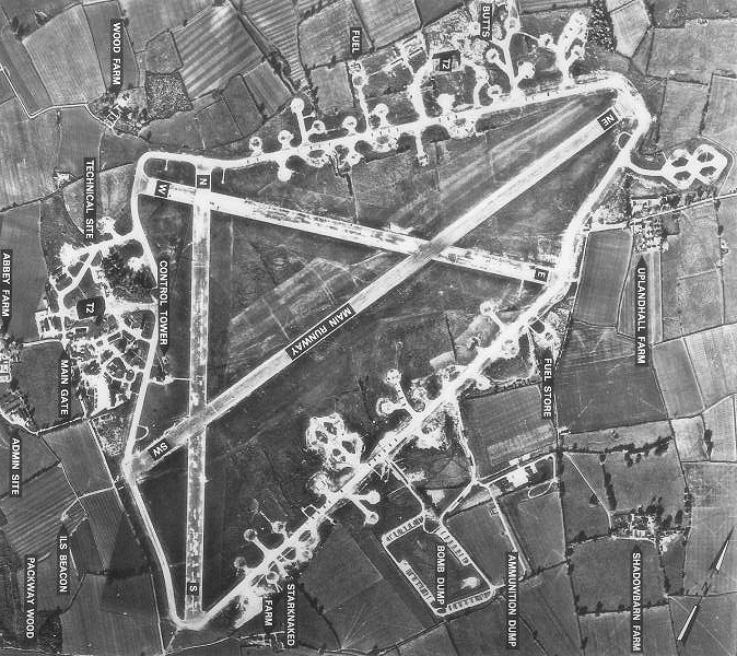 Aerial photograph of Bungay Airfield, England.